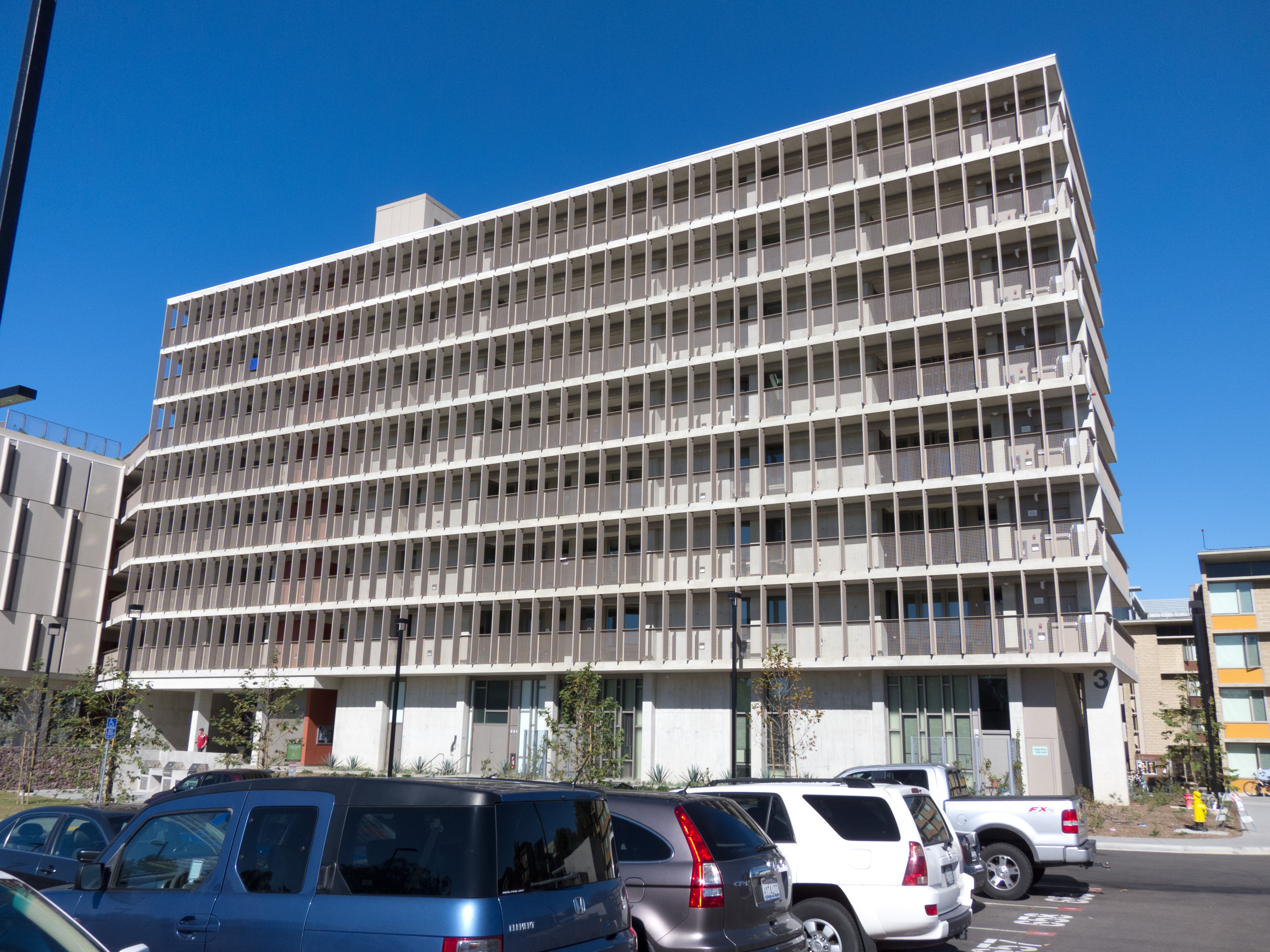 The third building of the Keeling Apartments at Revelle College - University of California, San Diego